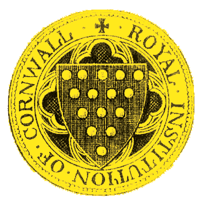 Logo of the Royal Institution of Cornwall